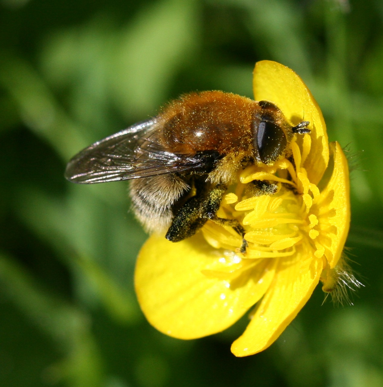 Merodon equestris (Large Narcissus Fly) - female